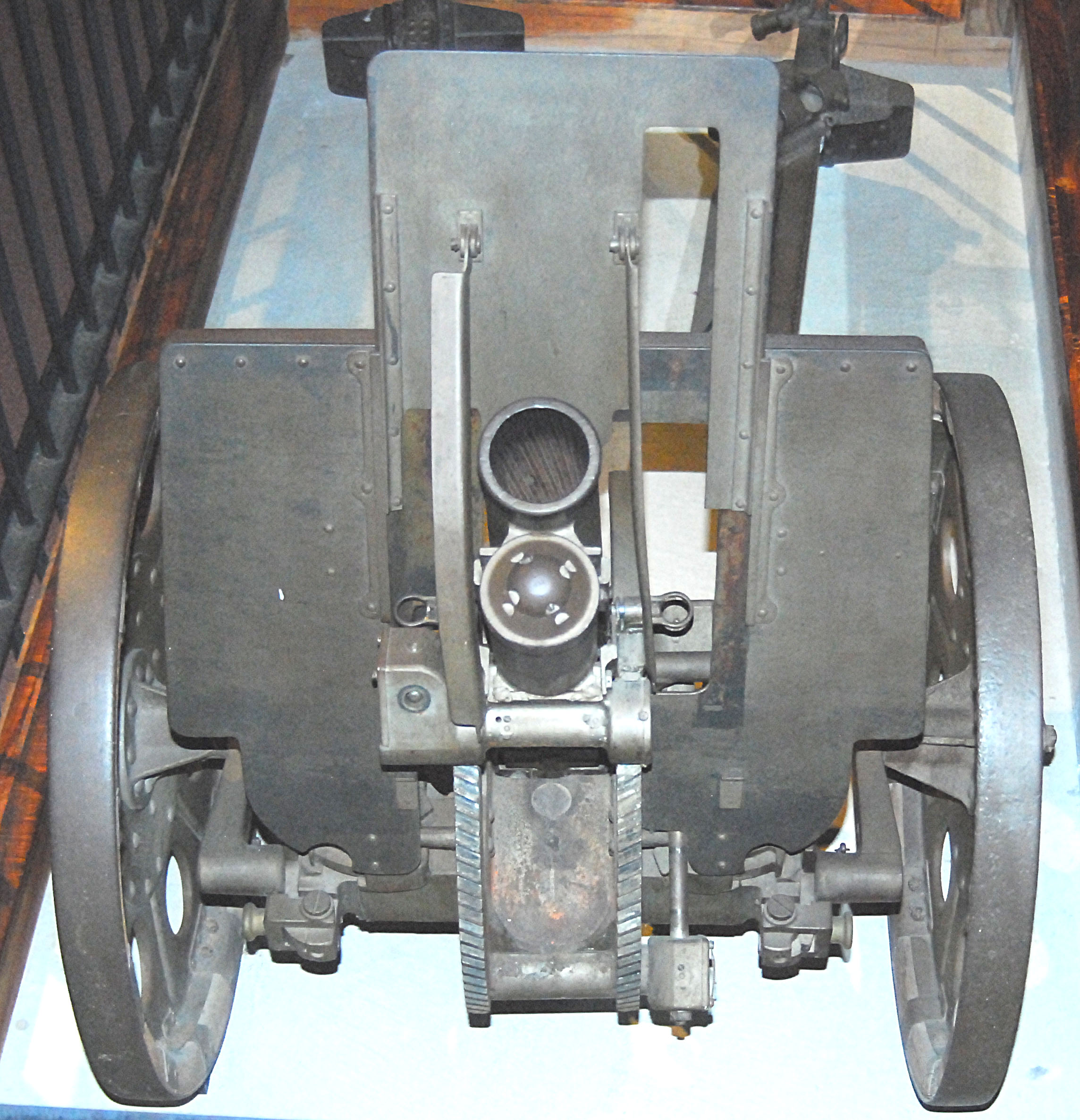 Japanese Type 92 howitzer (1932). A "Battalion Howitzer," this type was used in infantry battalions for high angle support fire. Now on display at Battery Randolf US Army Museum, Honolulu. Other views: Image:Howitzer_Japanese_Model_92-_1932_side_view.jpg Image:Howitzer_Japanese_Model_92-_1932_rear_view.jpg